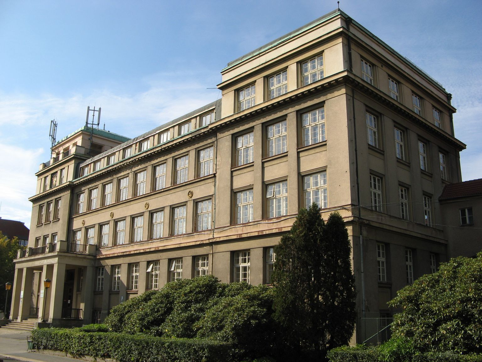 Technical University of Liberec